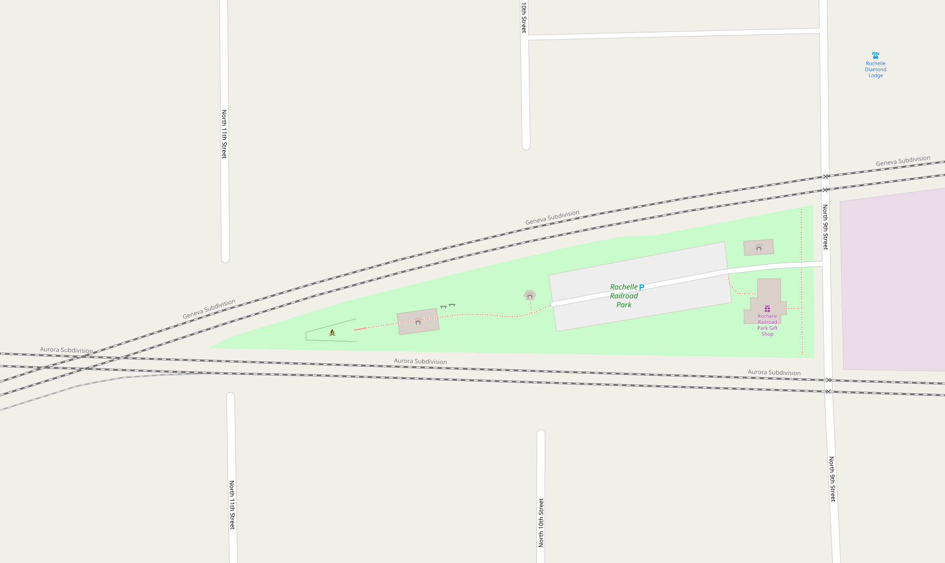 Extracted from OpenStreet Map